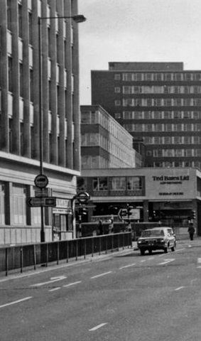 Corner of Gower Street and Euston Road